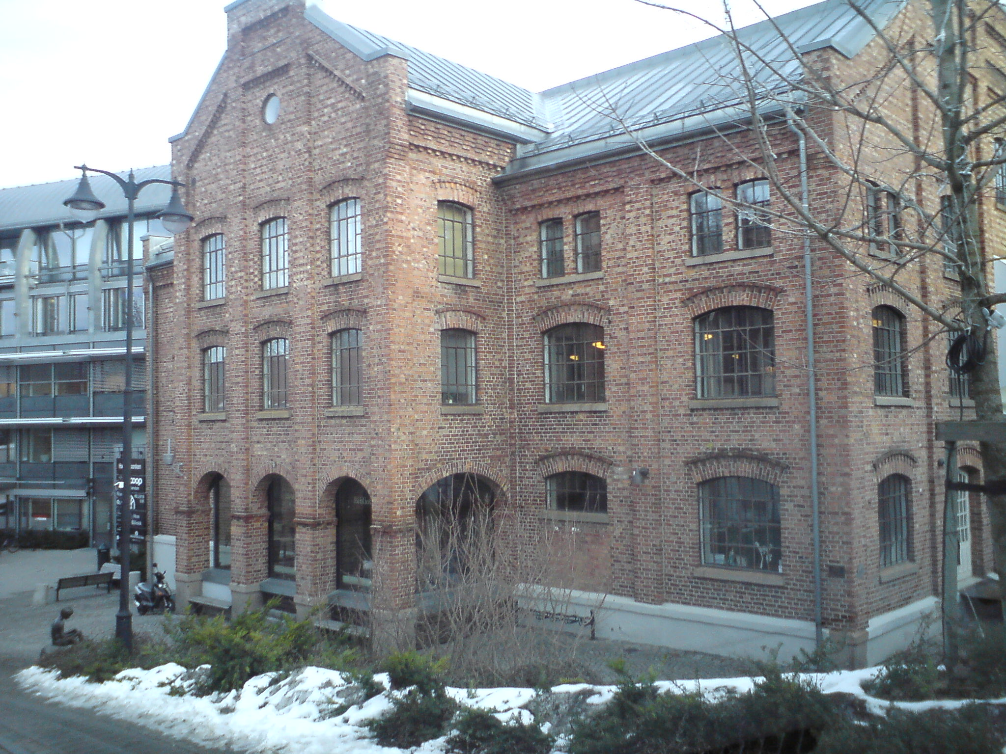 Moss library